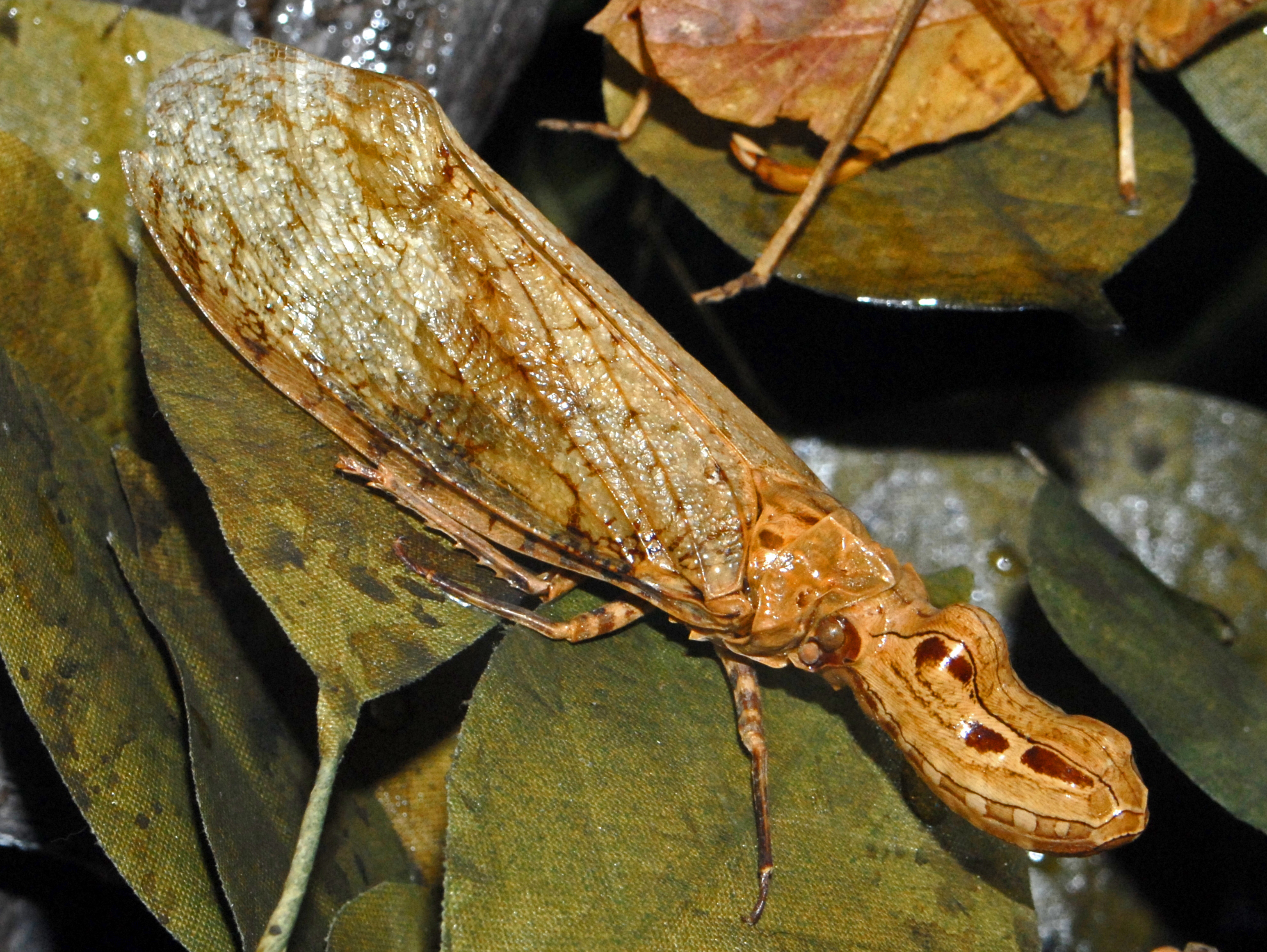 Museum mounted specimen of Fulgora cf. laternaria. On display at Museo Civico di Storia Naturale di Milano